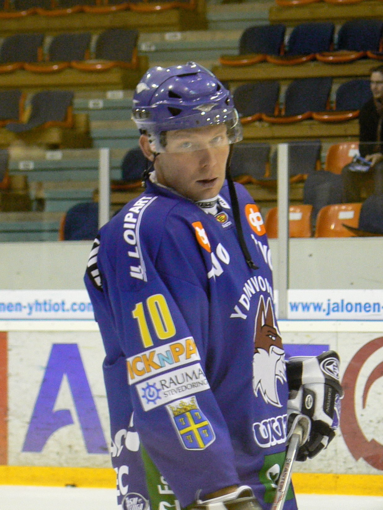 Canadian ice hockey defenseman Mike Siklenka playing for Lukko Rauma of the Finnish SM-liiga in March 2008.